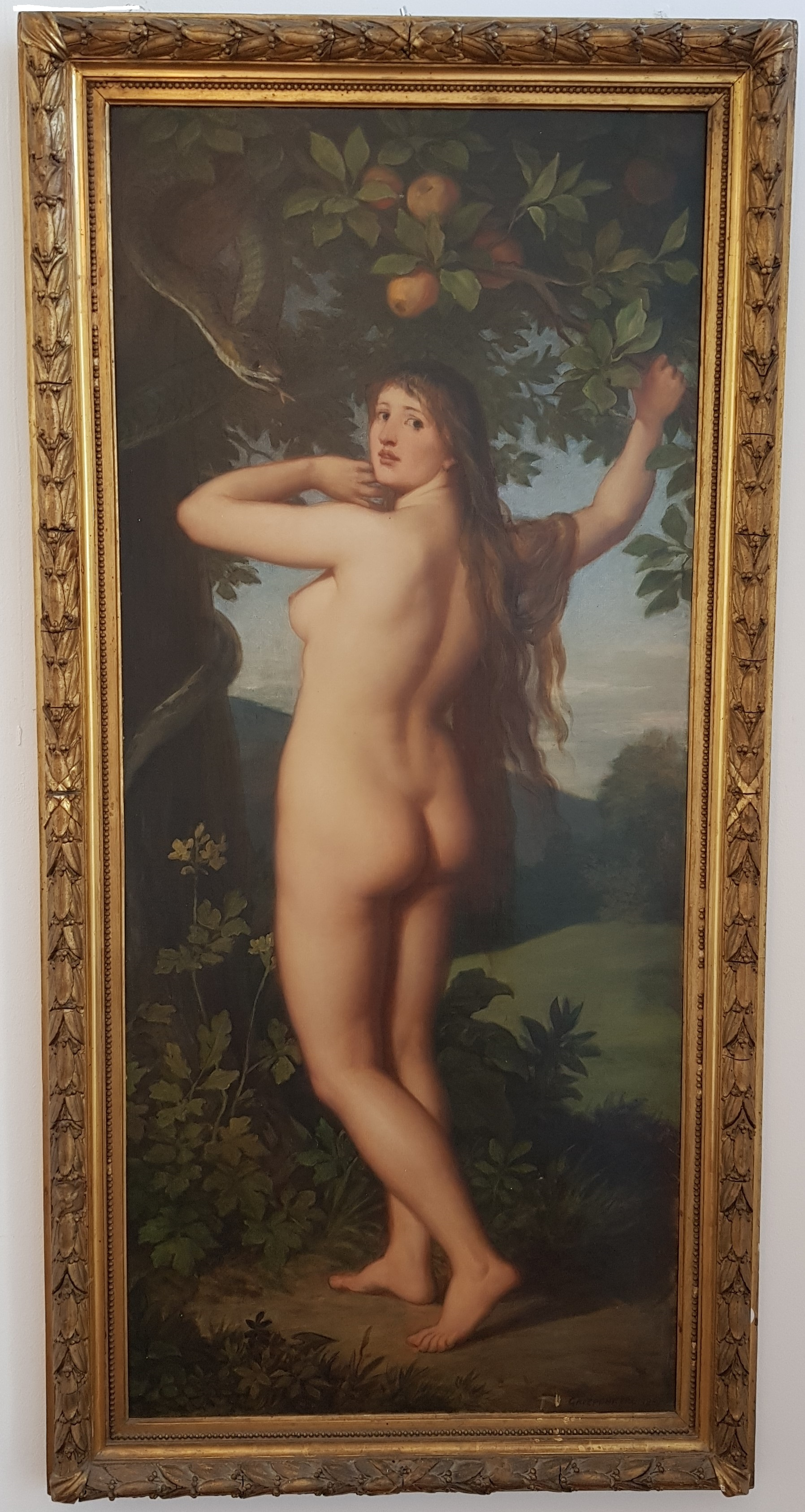 Eve by the tree of Knowledge (C. Griepenkerl, 1887)